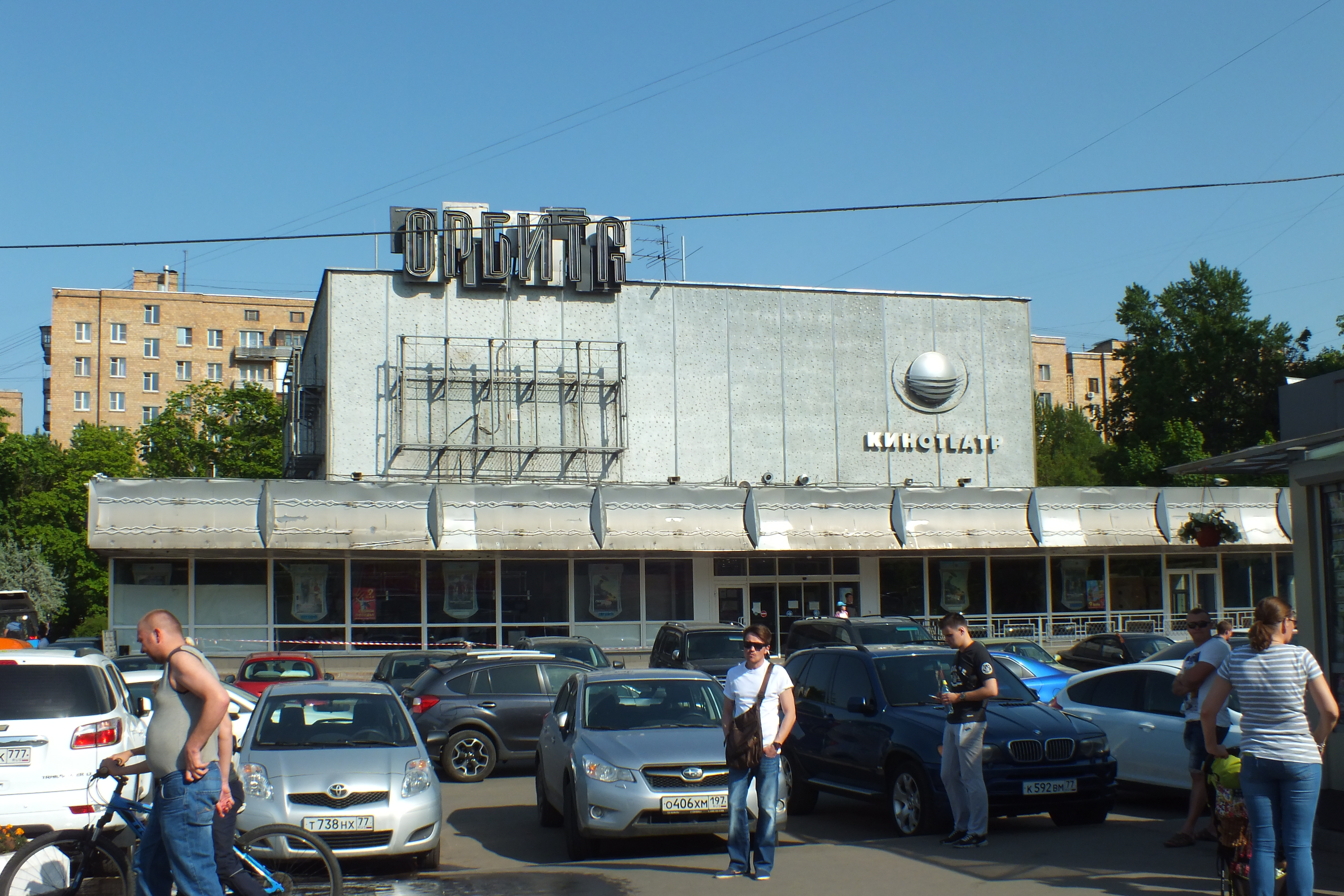 "Orbita" cinema in Moscow (near the "Kolomenskaya" metro station)